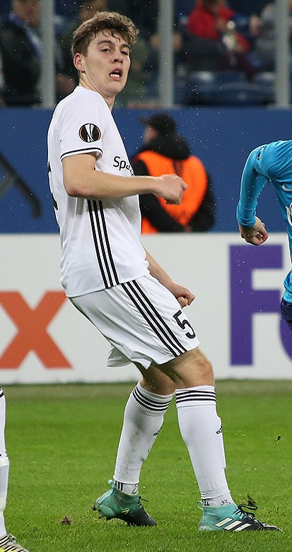 Jacob Rasmussen with Rosenborg in an Europa League game against Zenit St. Petersburg.